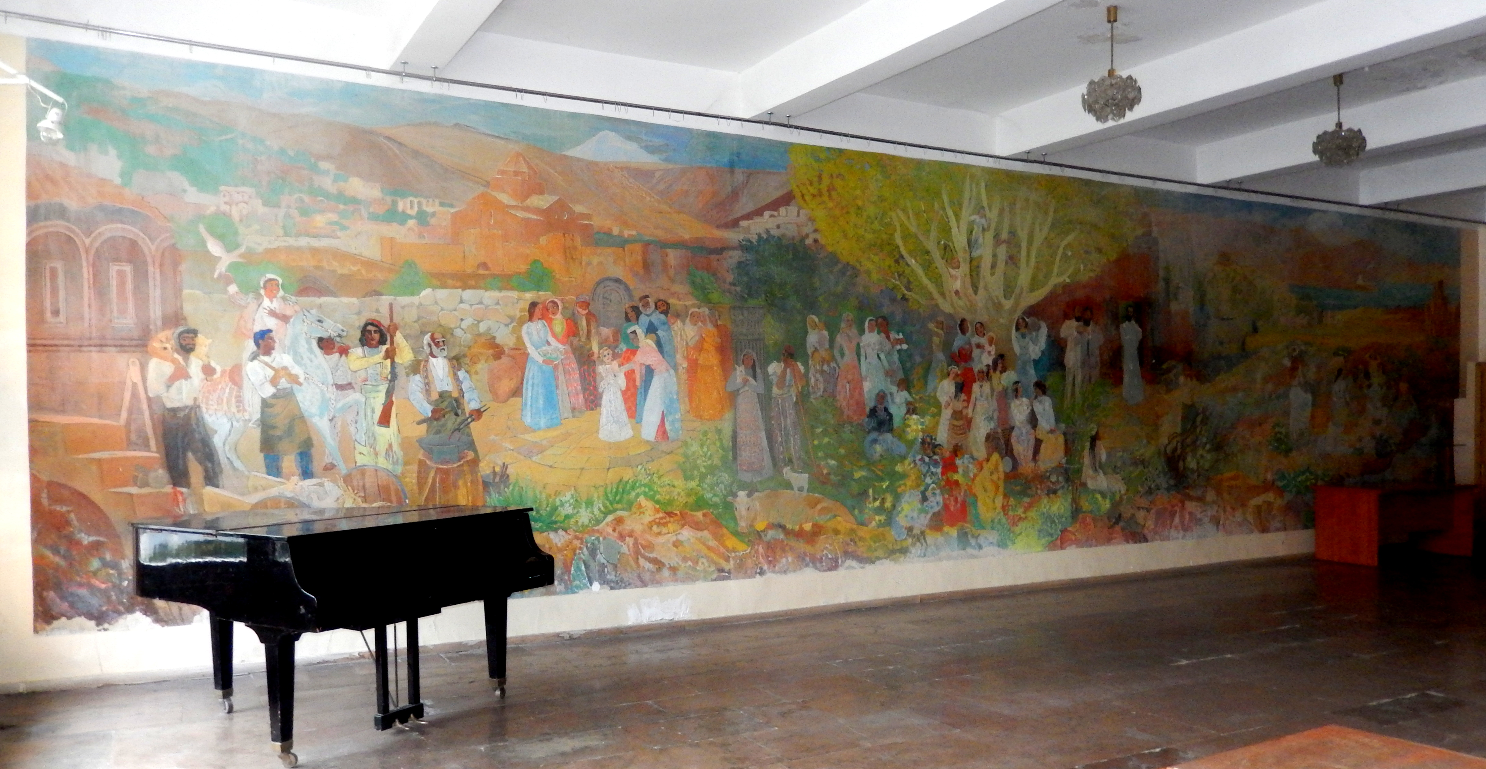 Armenian Musical Company